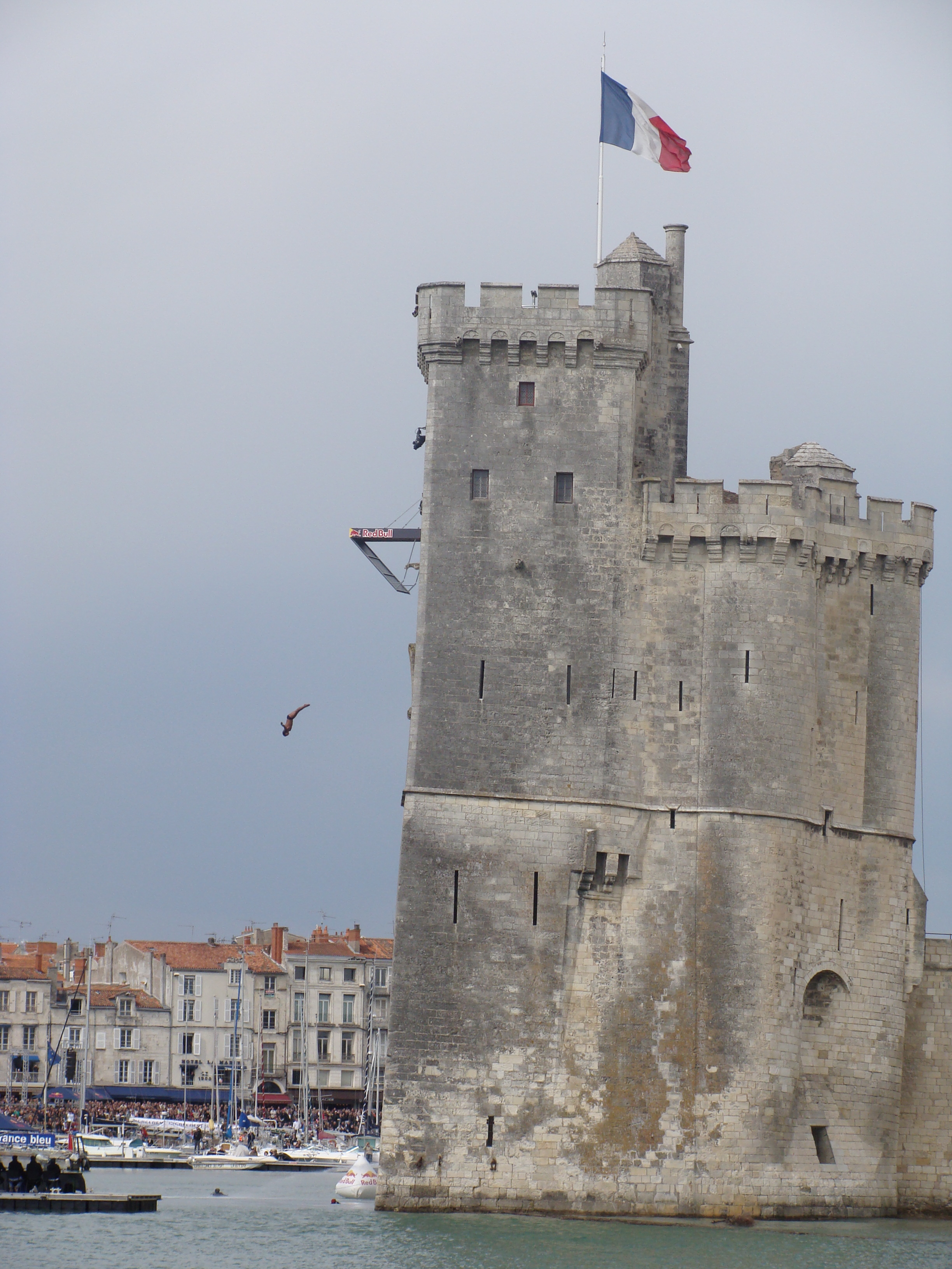 RedBull cliff diving world series championship 2010 in La Rochelle, France